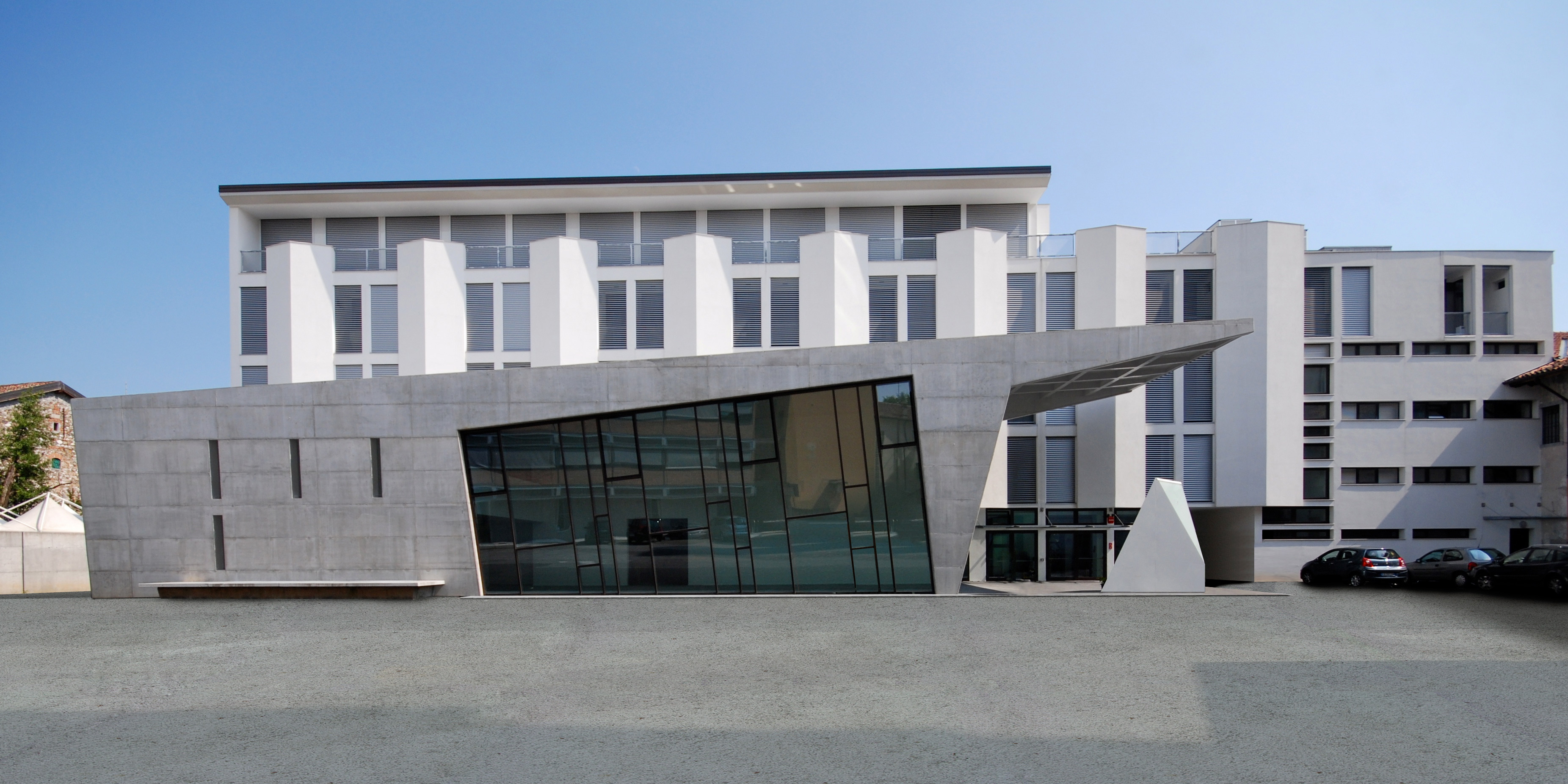 Architecture by Flora Ruchat and Carlo Toson